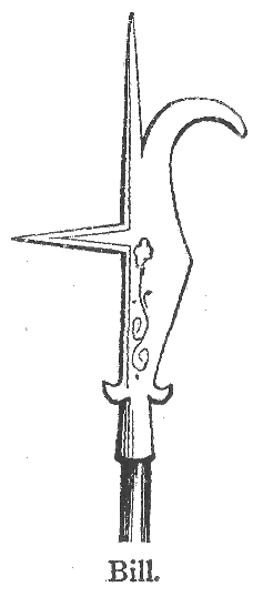 Illustration from 1908 Chambers's Twentieth Century Dictionary. Bill, n. a kind of concave battle-axe with a long wooden handle.